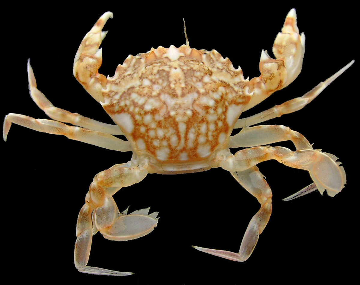 Marbled swimming crab taken on board of RV Belgica on the Belgian Continental Shelf.